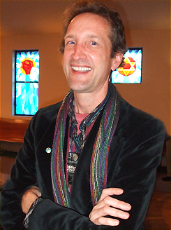 Image Taken in January, 2007 Santa Cruz, CA. by Greg Panos